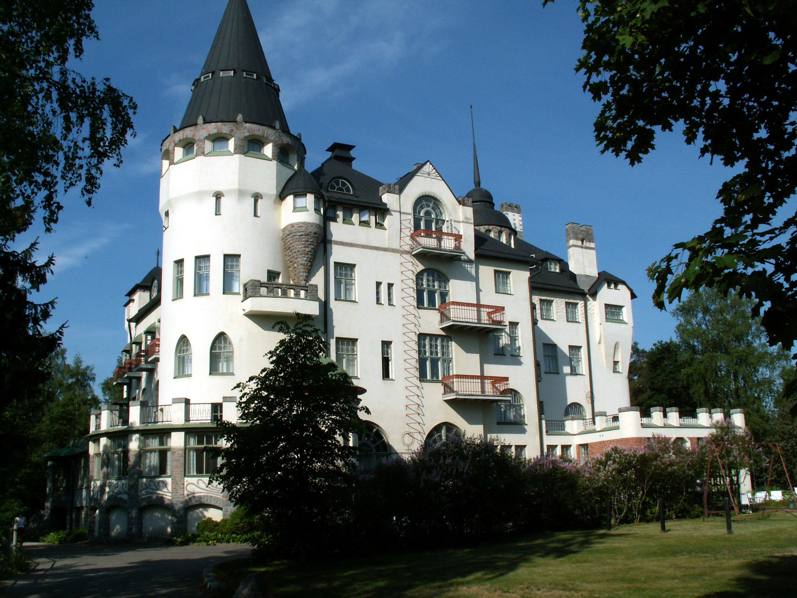 The State Hotel (Valtionhotelli) in Imatra, Finland. Built in 1903.